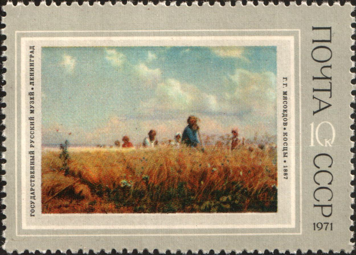 USSR stamp: "Busy Time for the Mowers", by Grigoriy Myasoyedov. Series: Russian Painting from 18th- to Early 20th-century. Centenary of Peredvizhniki